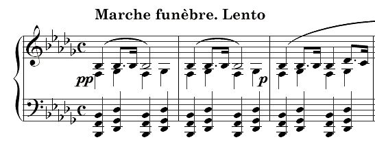 Frédéric Chopin's Piano Sonata No. 2 in B-flat minor, Op. 35 - III. Marche funèbre: Lento